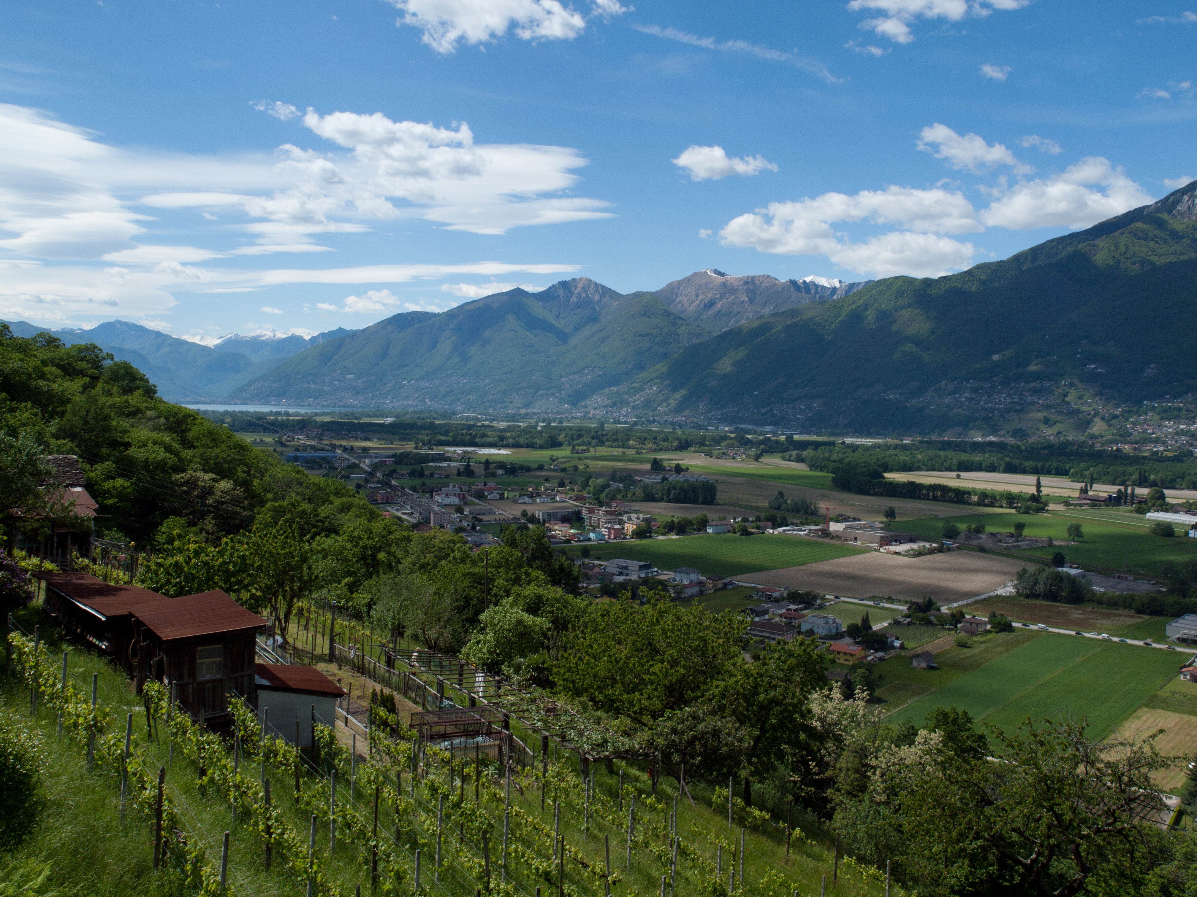 View from Monte Ceneri road toward Locarno